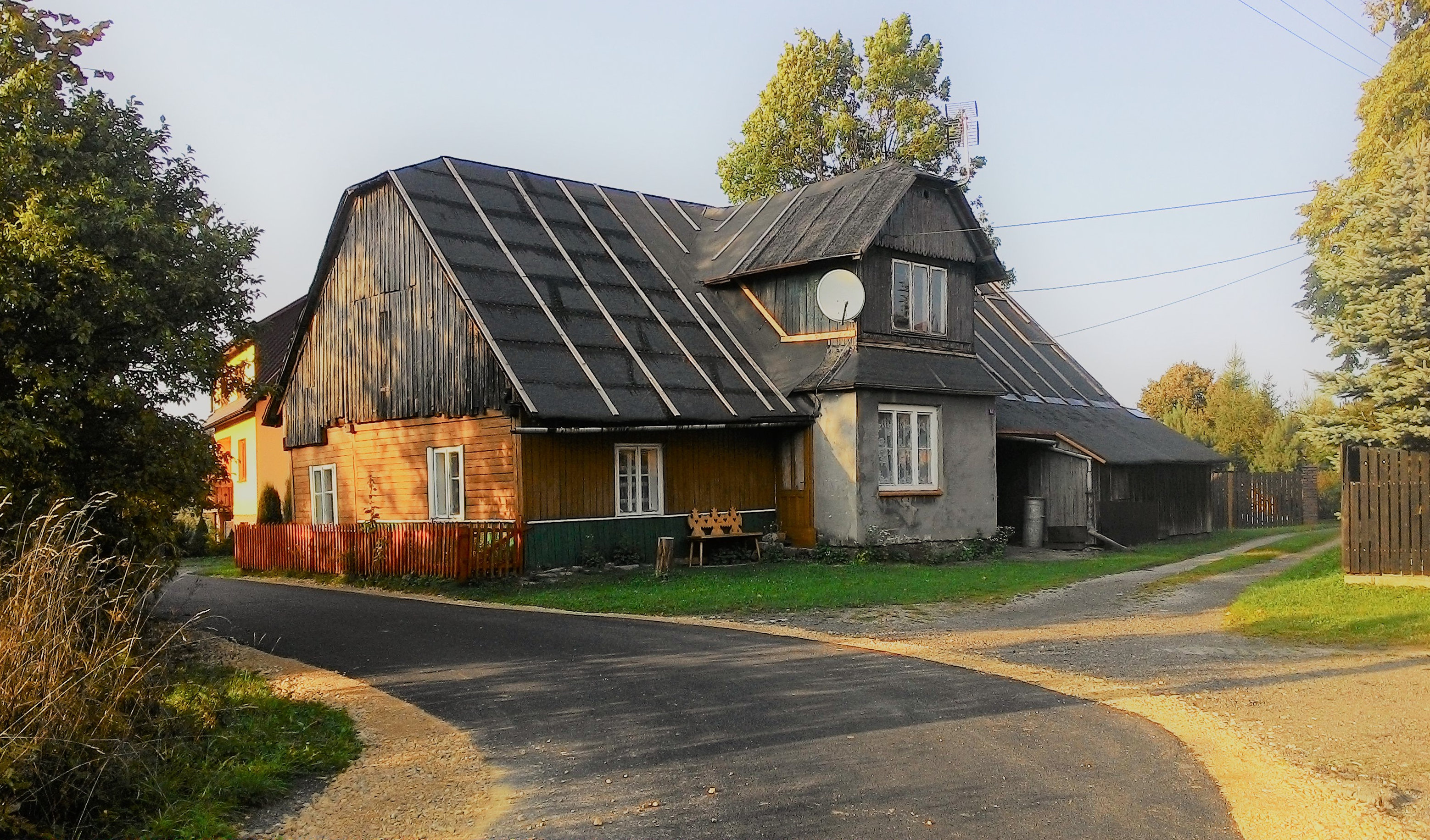 House No. 67 in the village on Polish-Slovak border.